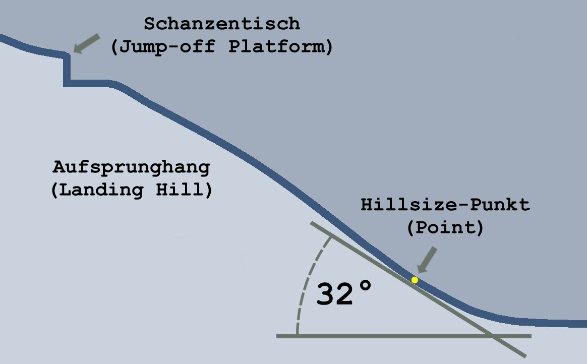 diagram to explain the word "hill-size" at ski jumping hills